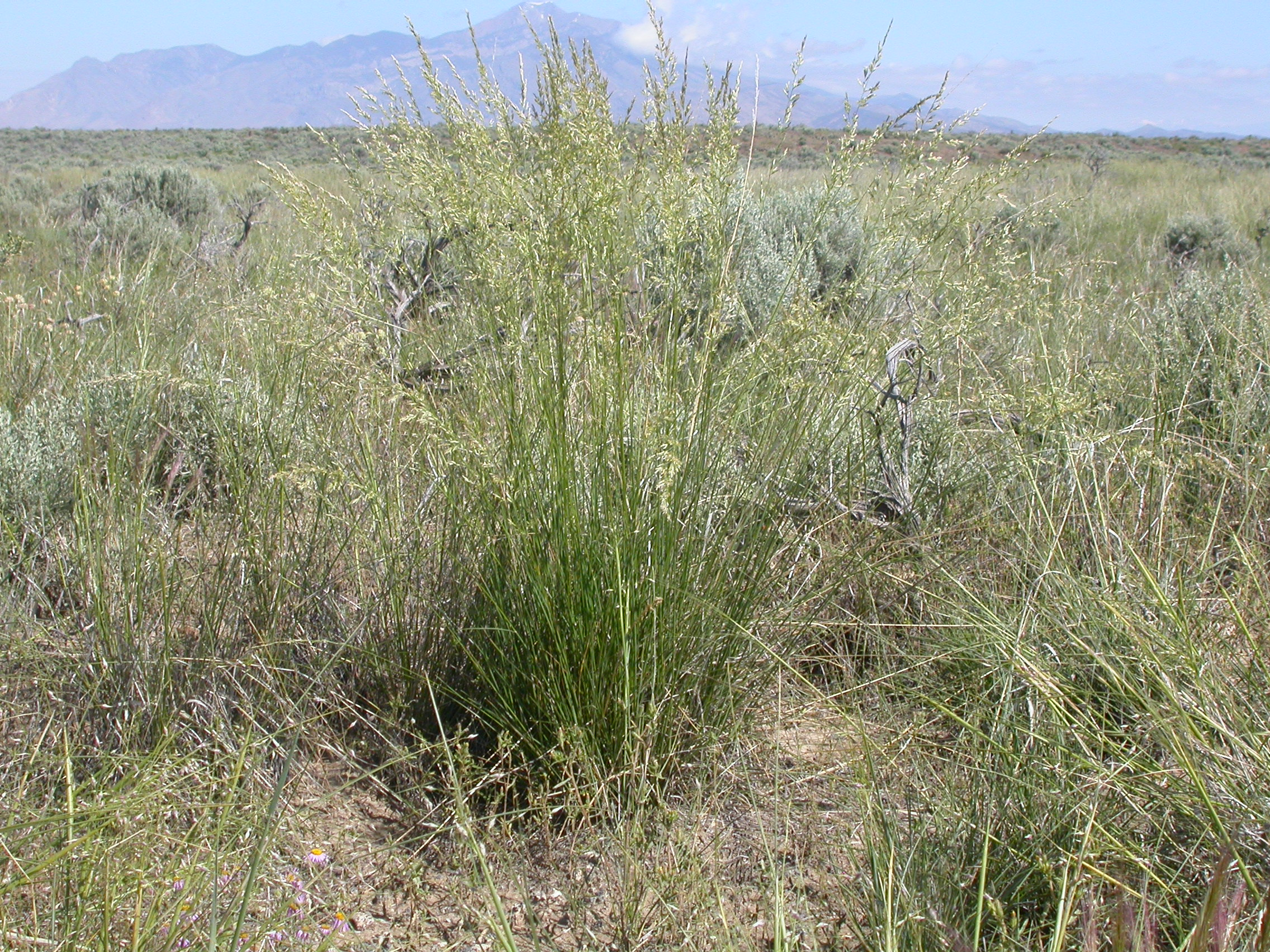 The is the predominant if not the only bluegrass species in the sagebrush steppe of this part of Idaho. It was one of the few species to respond positively to all of the June 2009 rains. Saddle Mountain sits in the background.